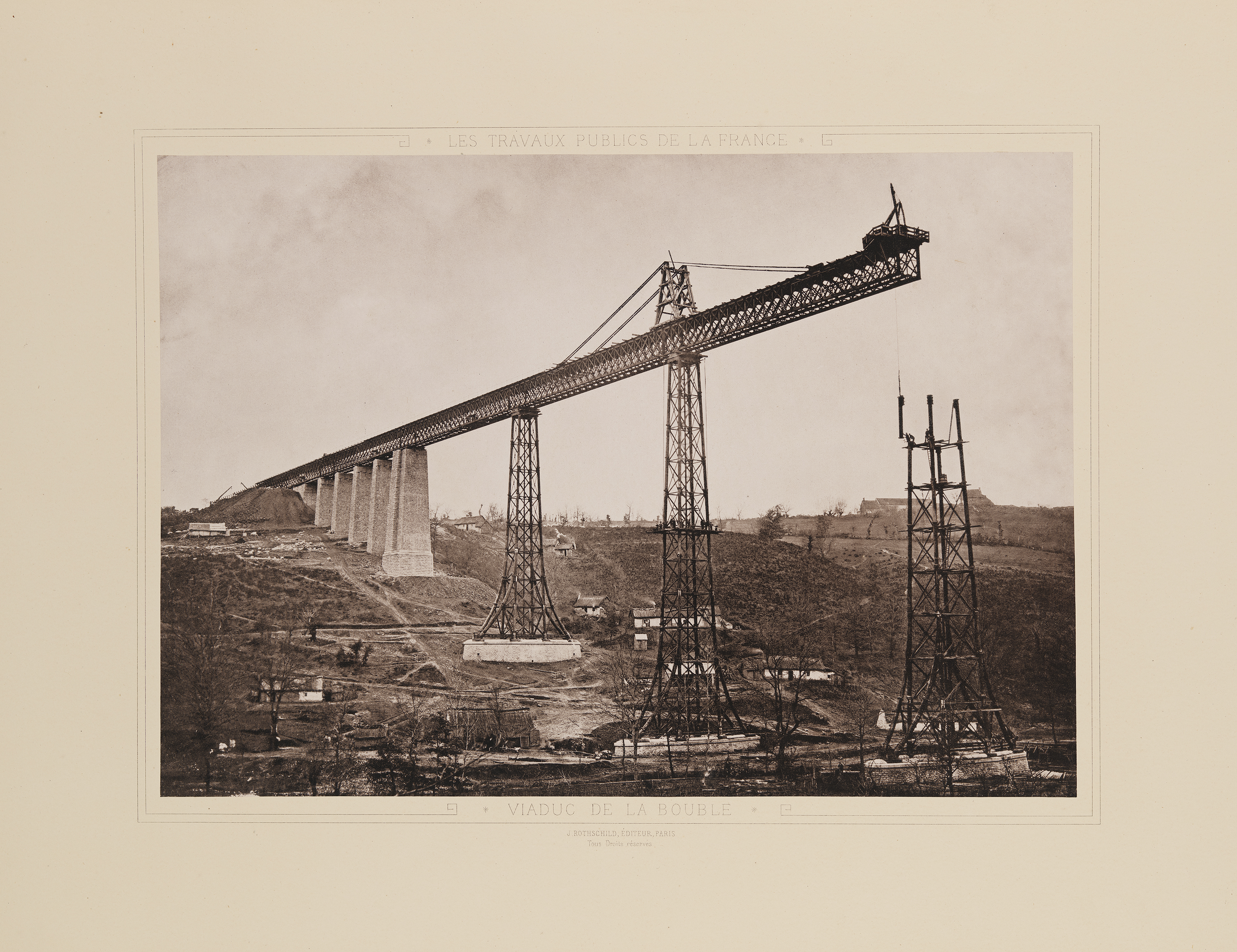 Title: Viaduc de la Bouble Alternative Title: Bellon Viaduct Creator: Unknown Date: 1883 Part Of: Les Travaux Publics de la France, Tome Deuxieme: Chemins de Fer Place: Louroux-de-Bouble, Allier, Auvergne, France Physical Description: 1 photographic print: collotype; 26 x 35 cm on 40 x 56 cm mount File: vault_folio_2_ta71_a4_1883_2_16_opt.jpg Rights: Please cite Southern Methodist University, Central University Libraries, DeGolyer Library when using this image file. A high-quality version of this file may be obtained for a fee by contacting . For more information, see